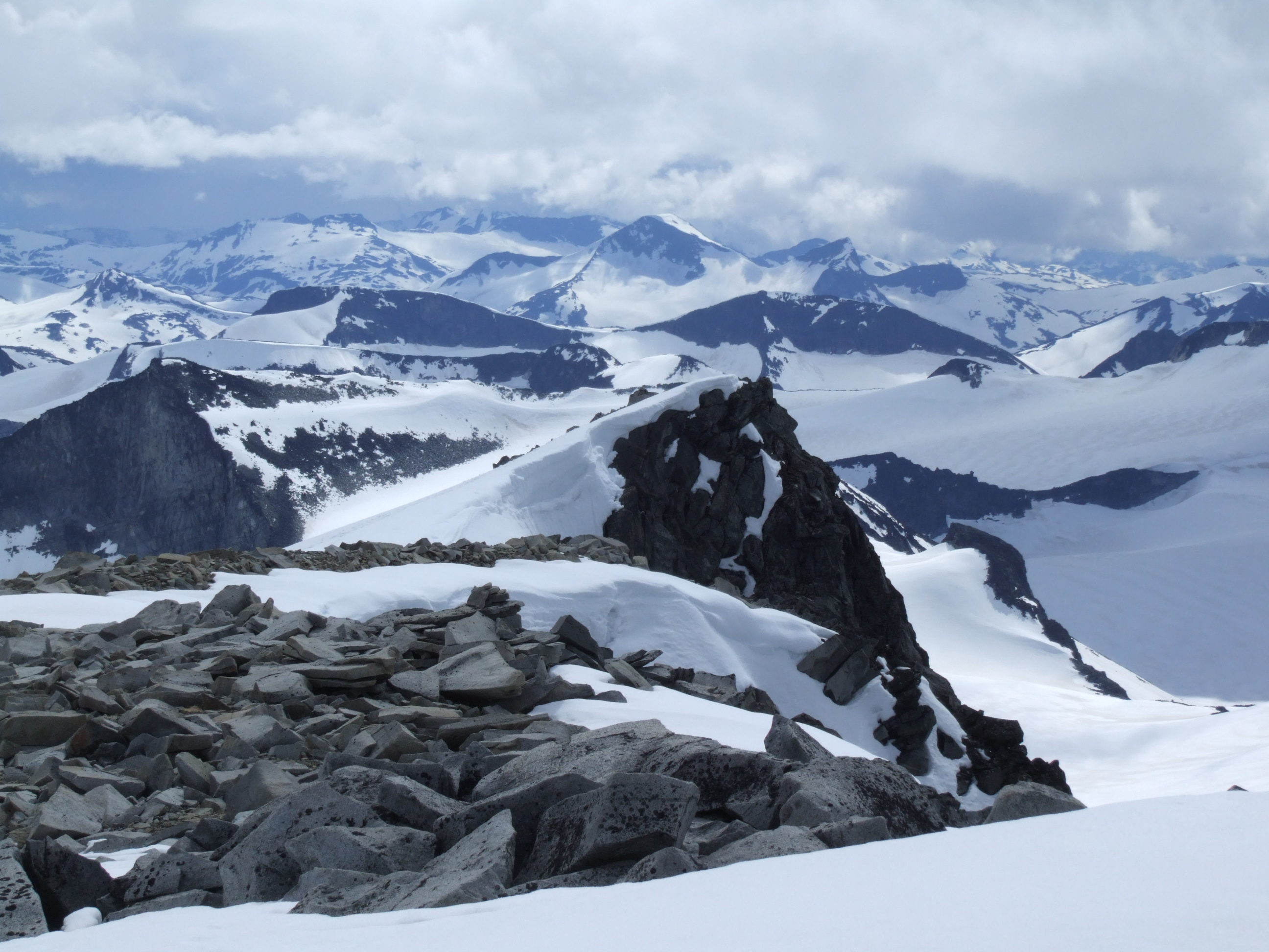 Jotunheimen mountains - view from Galdhøpiggen, Norway